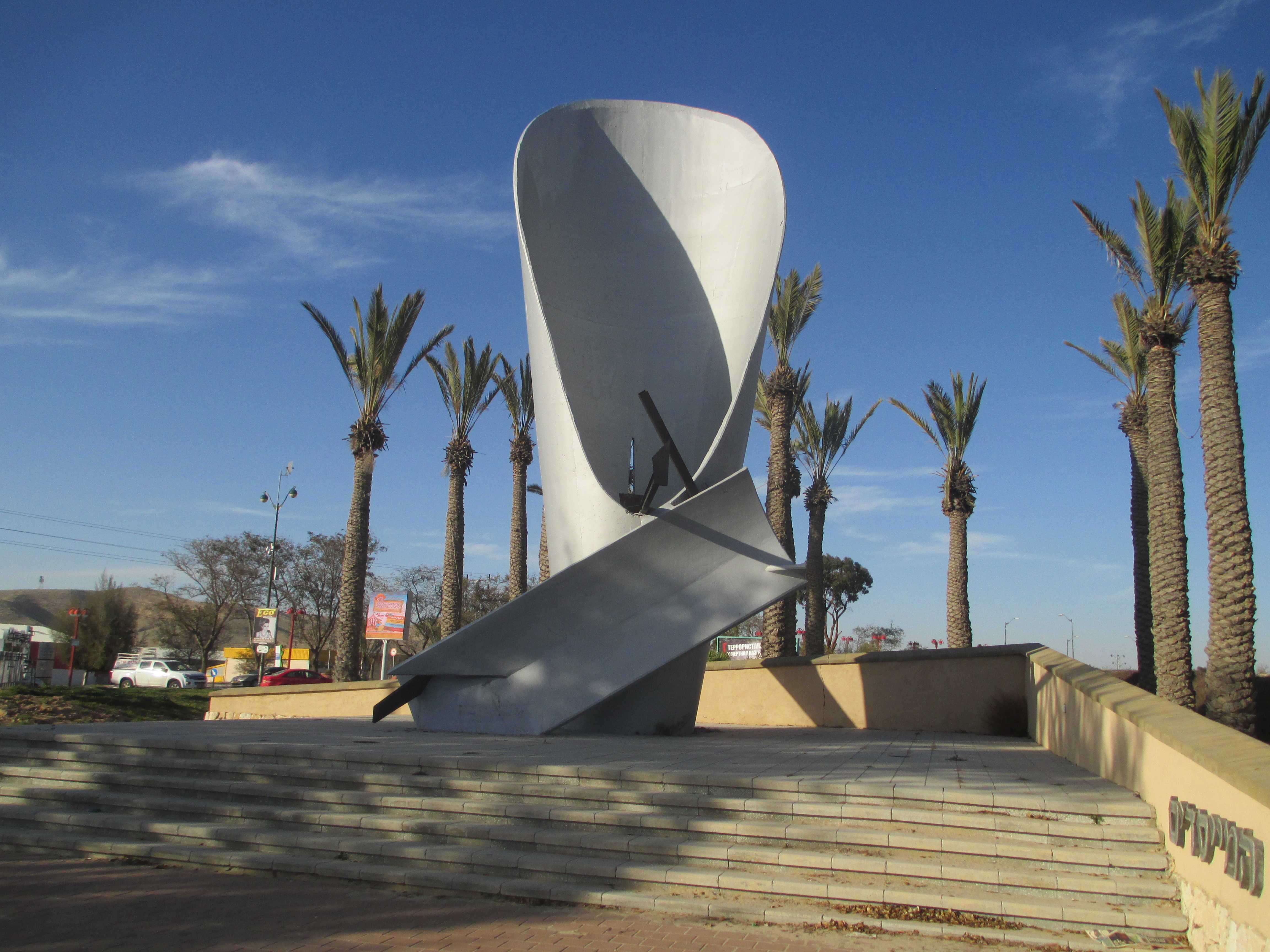 Yigal Tumarkin sculpture at the entrance to Dimona